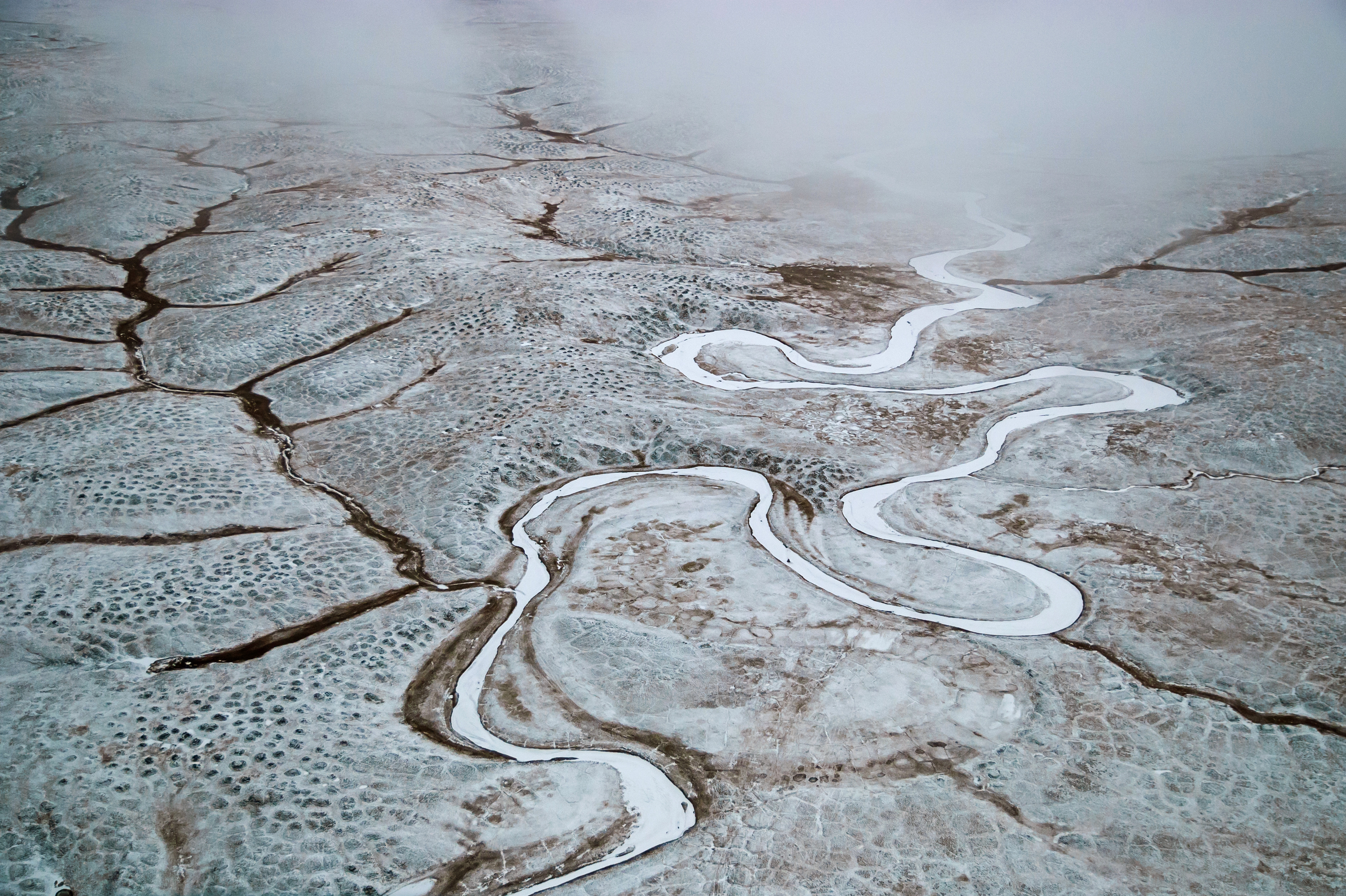 Malakatyn river at Bolshoy Lyakhovsky Island, Sakha, Russia; part of "Lena Delta resource reserve"